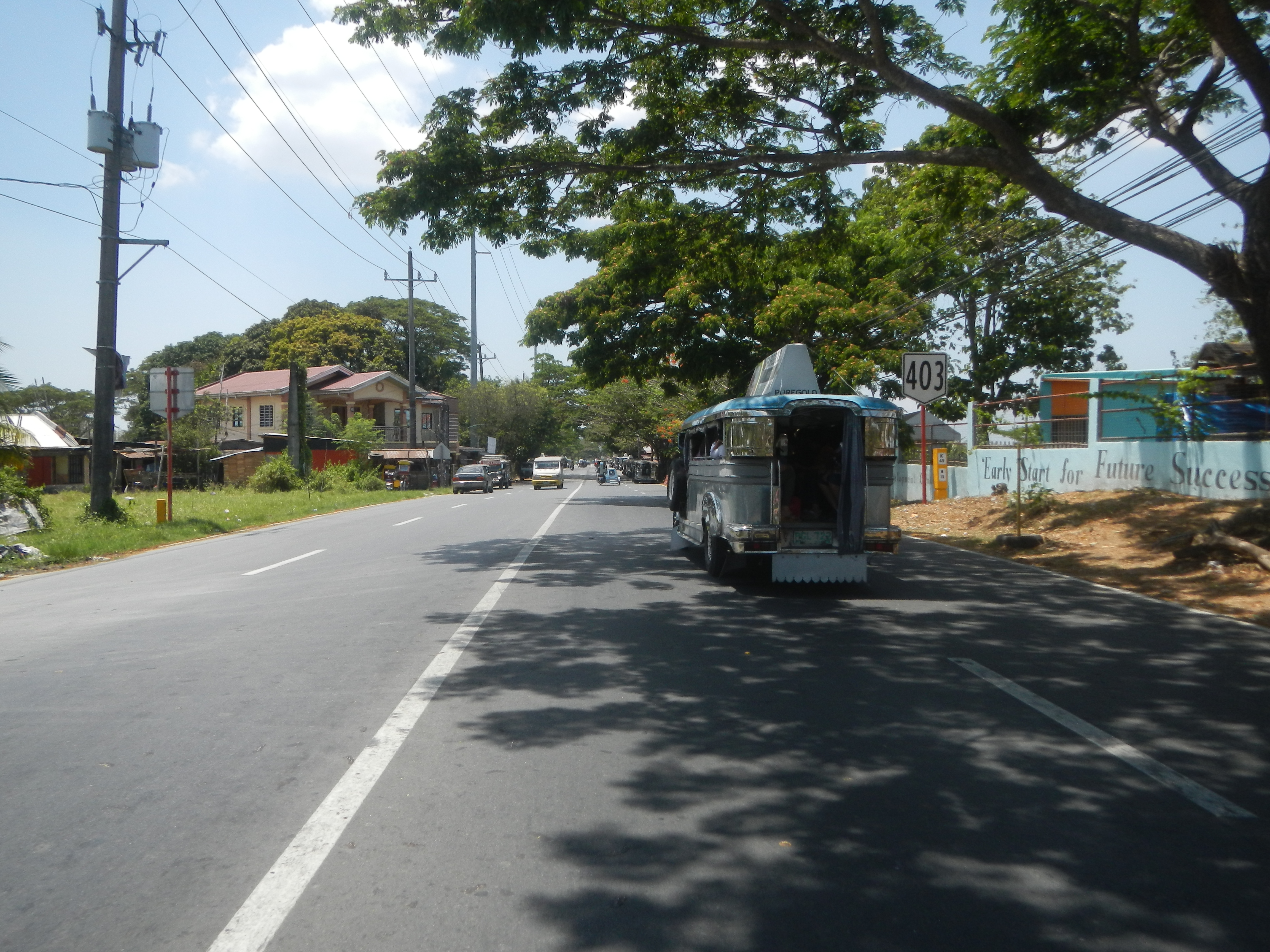 Trece Martires-Tanza-Naic Road (Governor's Drive) from San Agustin Poblacion, City of Trece Martires, Cavite) City of Trece Martires Public Market, Cavite Barangay San Agustin (Poblacion), City of Trece Martires 14°17'3"N 120°51'23"E Lapidario, Trece Martires City 14.2663, 120.8658 Trece Martires Tanza–Trece Martires Road corner Trece Martires–Indang Road towards Aguinaldo Highway corner Governor's Drive Governor's Drive (City of Trece Martires, Cavite) Philippine highway network (Note: Judge Florentino Floro, the owner, to repeat, Donor Florentino Floro of all these photos hereby donate gratuitously, freely and unconditionally all these photos to and for Wikimedia Commons, exclusively, for public use of the public domain, and again without any condition whatsoever).